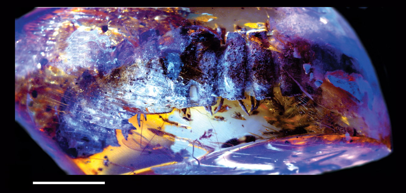 Figure 2. Maatidesmus paachtun nov. gen. and sp., holotype. (A) General view, scale bar 5 mm.